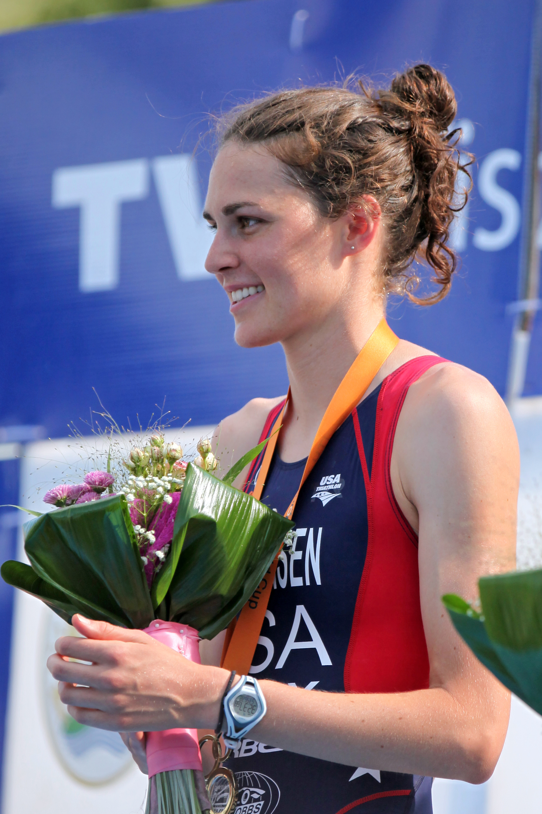 Gwen Jorgensen, gold medalist at the World Cup elite triathlon in Tiszaújváros.